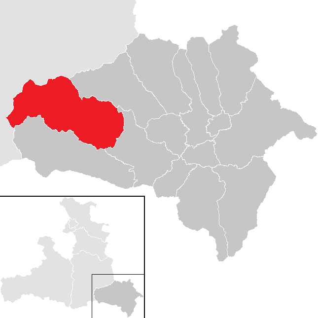 District Tamsweg